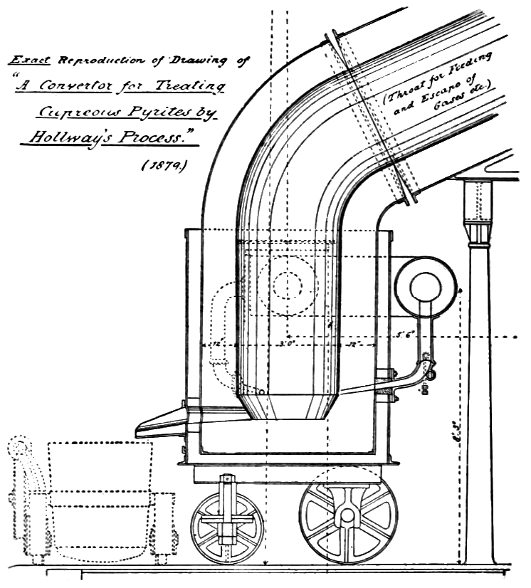 Smelting and converting furnace proposed by John Hollway in 1879, to smelt pyrites into copper matte. This furnace is designed to realize both smelting and partial refining. It has never been followed by any industrial example.